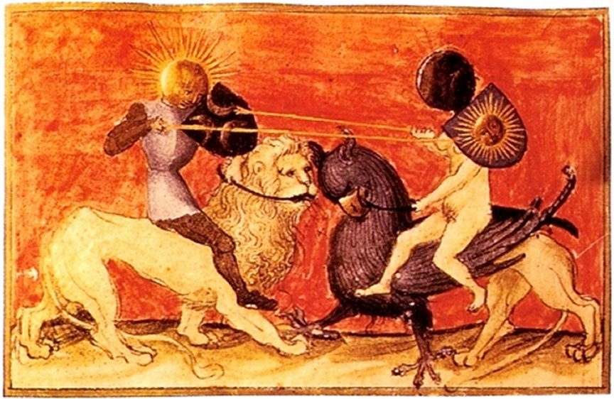 sun and moon